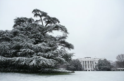 South Lawn of the White House showing a Cedar of Lebanon tree/